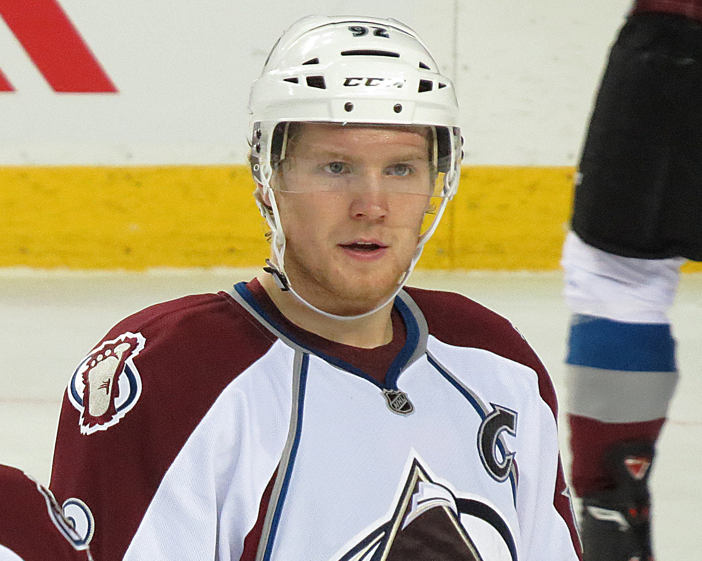 Captain Gabriel Landeskog of the Colorado Avalanche during the 2013–14 season.